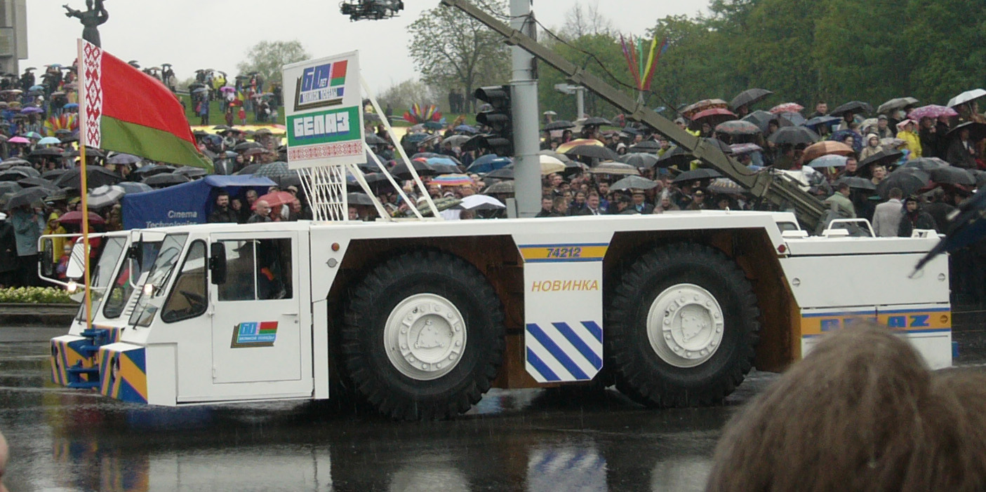 Belaz 74212 on Victory Day parade in Minsk